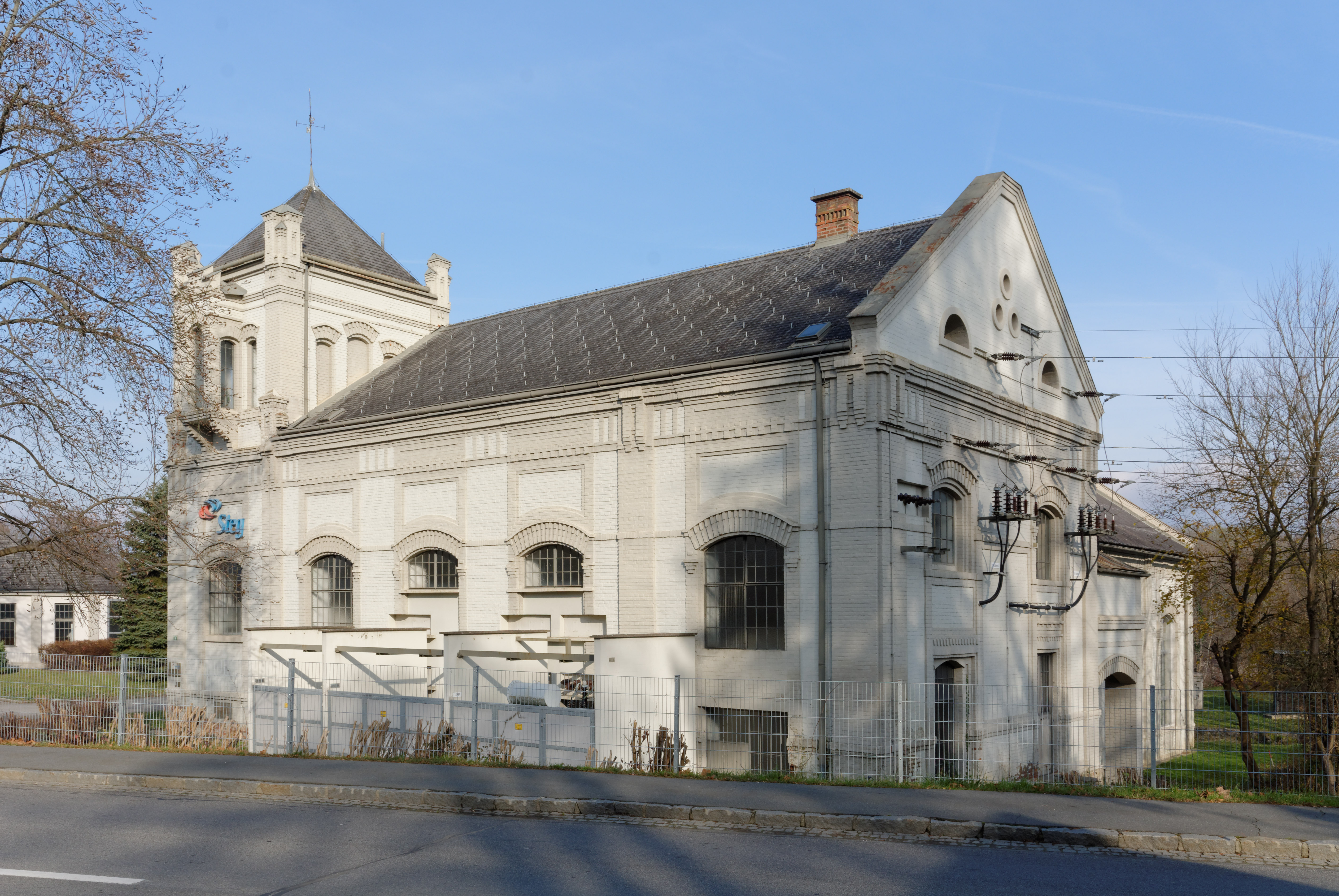 Power house of the hydroelectric power plant in Lebring, Styria, Austria